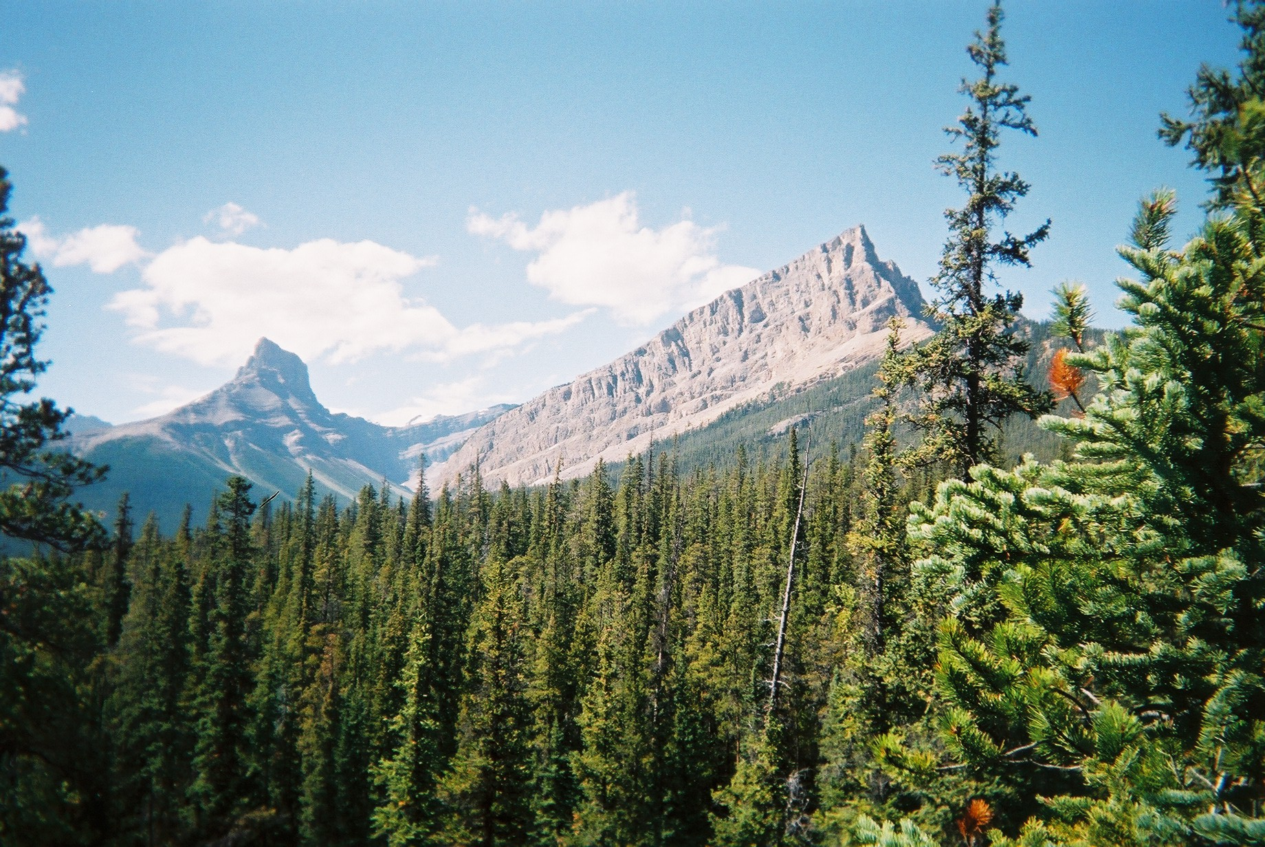 Taken by myself in the White Goat Wilderness area of the Alberta Rockies in August of 2005. I hereby release this image into the public domain.